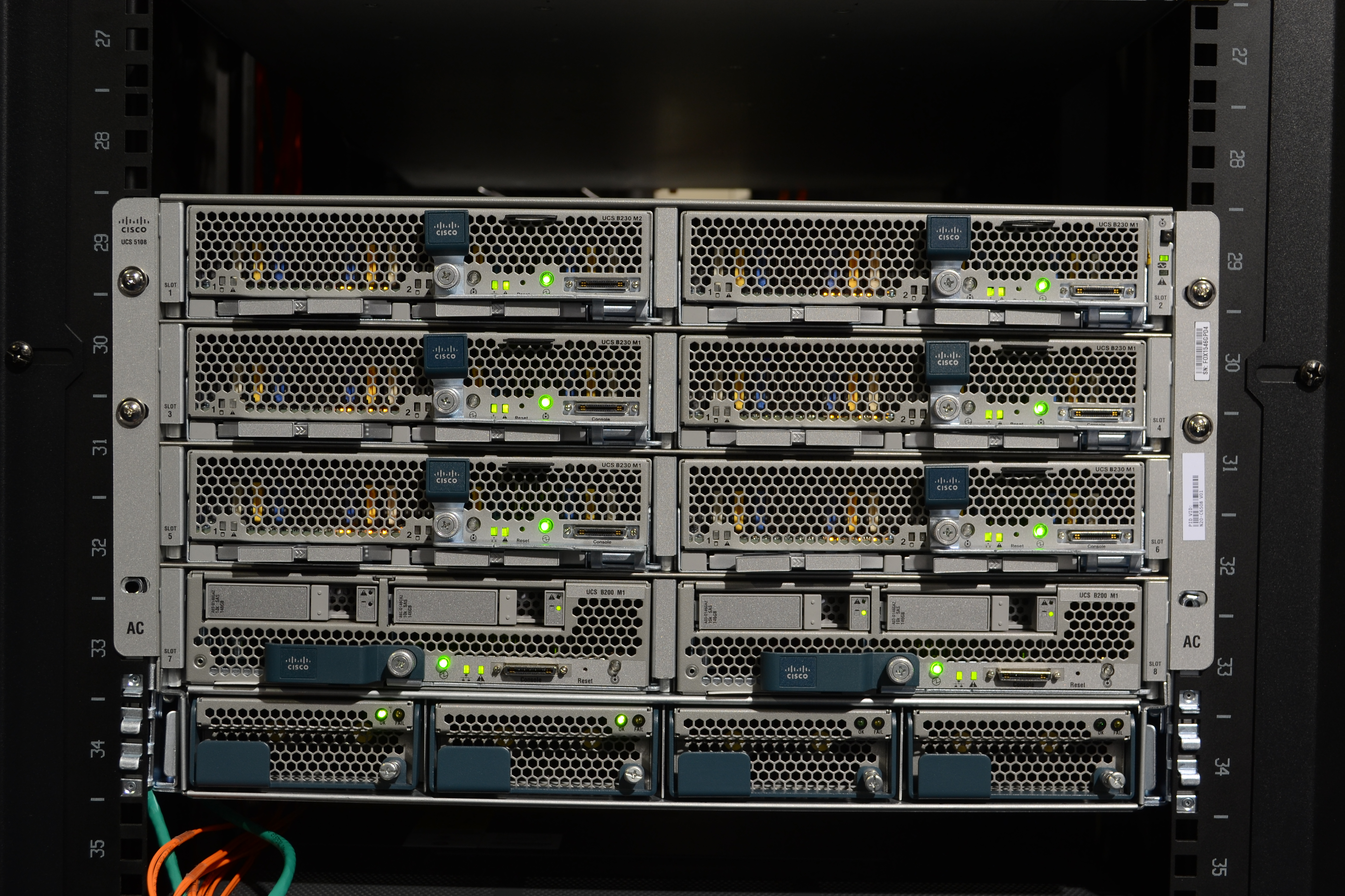 Cisco UCS B200, B230 M1 & M2